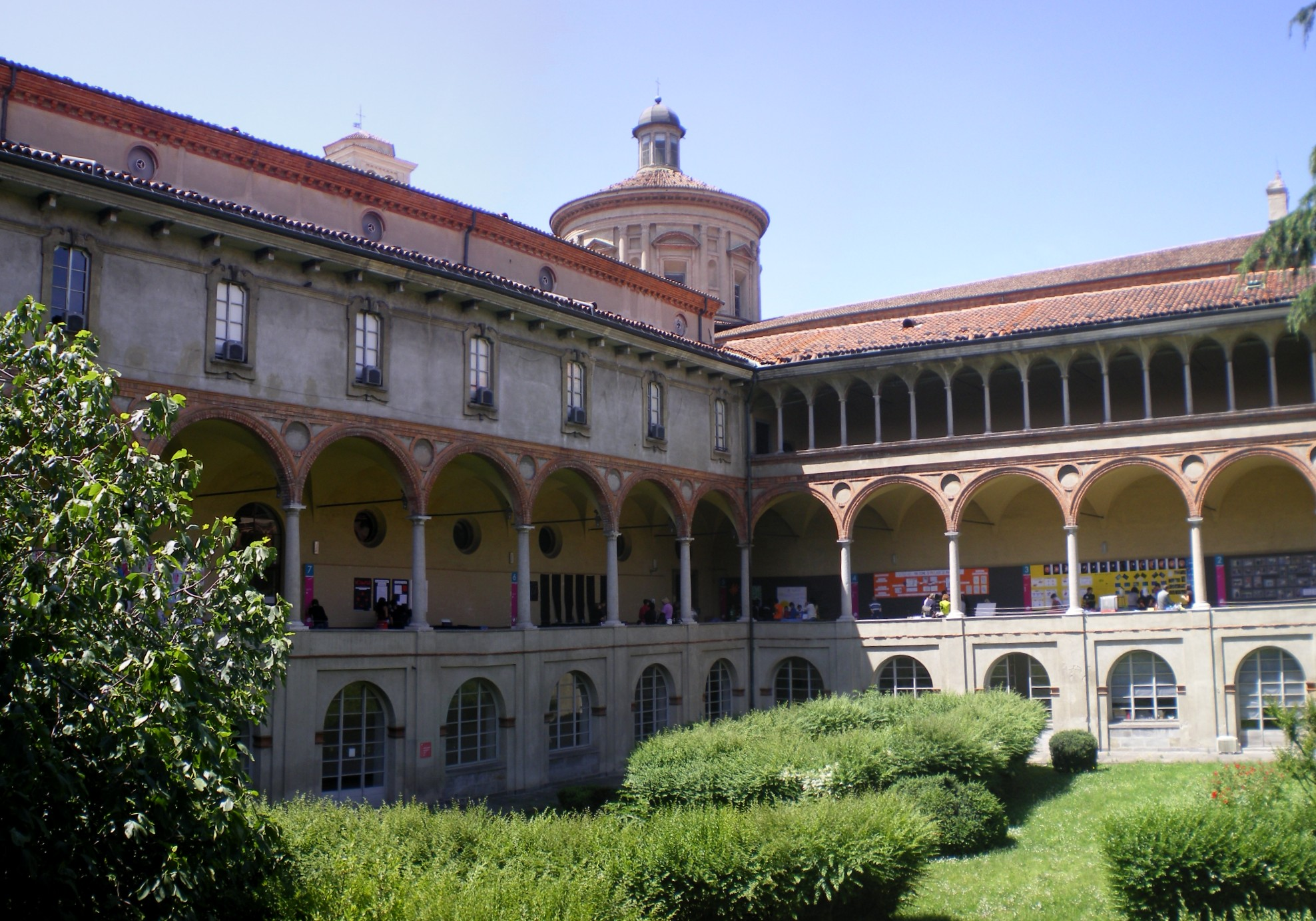 A picture showing the National Museum of Science and Technology of Milan.